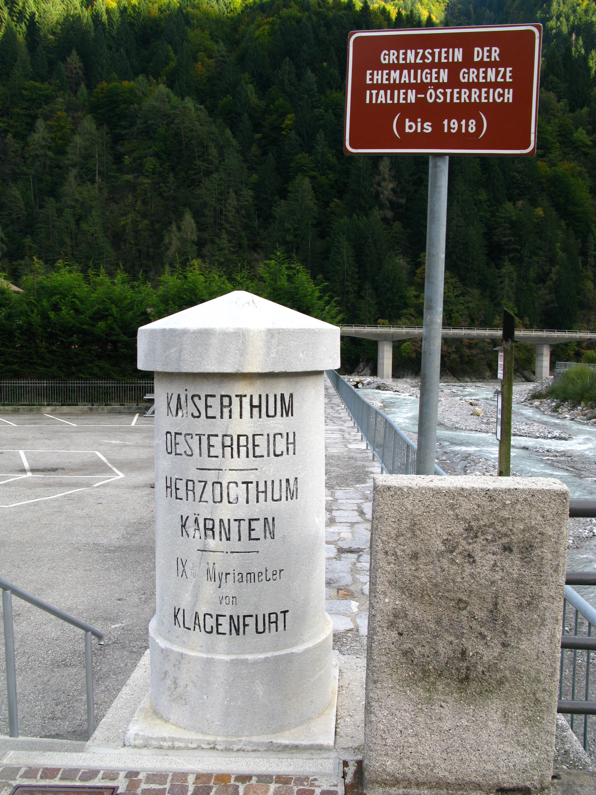 Old boundary stone in Pontebba (Friuli-Venezia Giulia / Italy / EU) marking the border between Austria–Hungary and Italy till 1918. At that time Pontebba consisted of two villages, the Italian speaking Pontebba and the German speaking Pontafel (part of Carinthia).